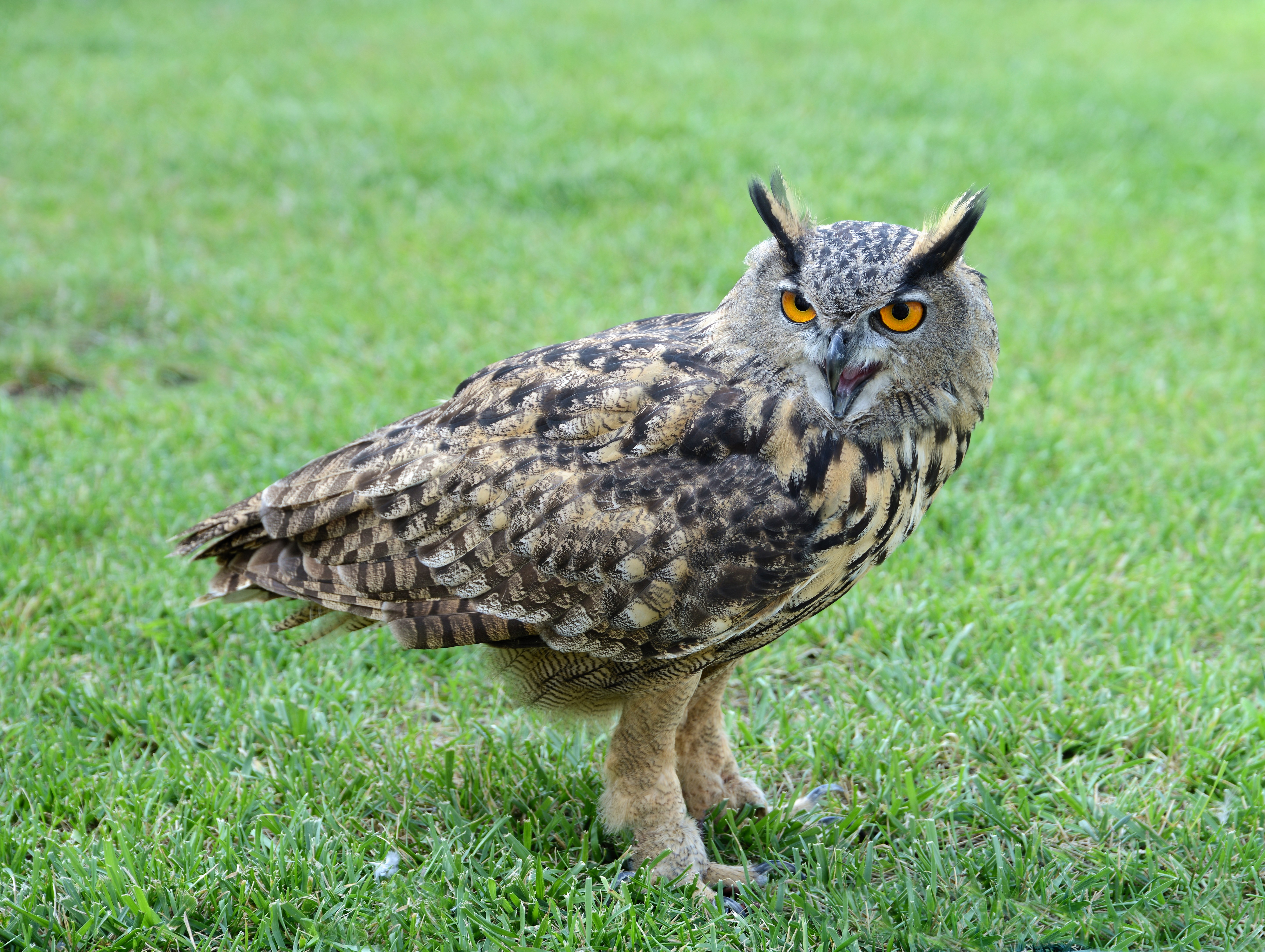 A European Eagle-owl in captivity. Falcoaria real, Salvaterra de Magos, Portugal